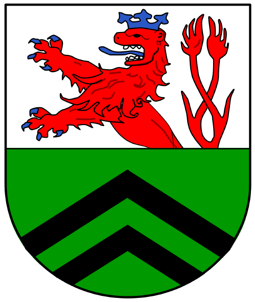 CoA of Wuppertal-Dönberg